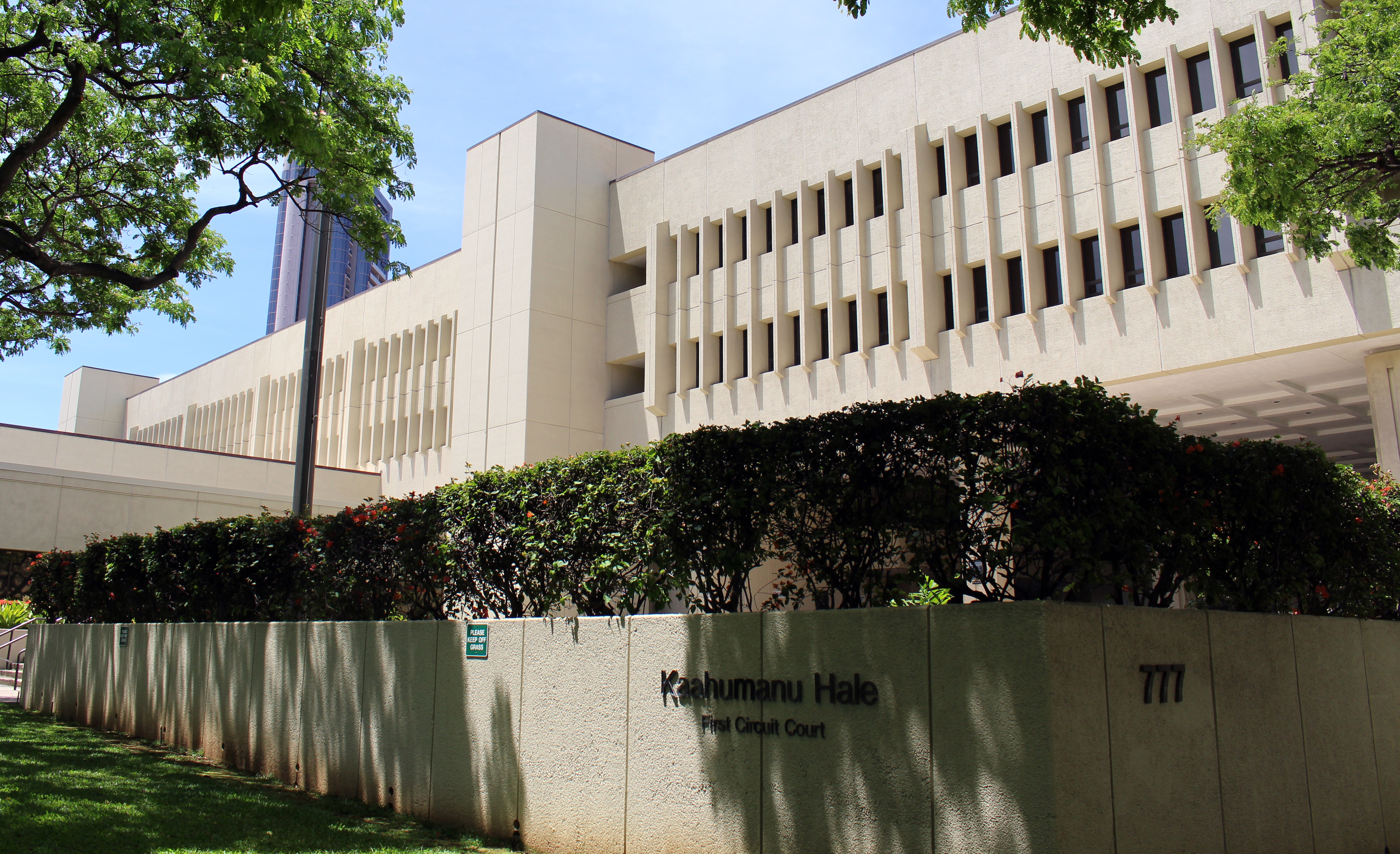 Kaahumanu Hale in Honolulu, Hawaii. This courthouse is home to the Hawaii First Circuit Court. Photographed by user Coolcaesar on May 25, 2019.